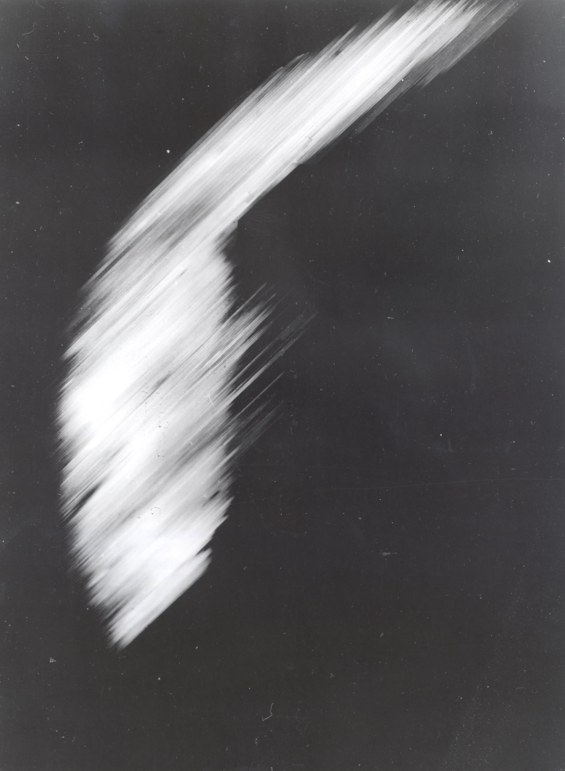 The first photo of Earth from a satellite in orbit. This is the first crude picture obtained from Explorer VI Earth satellite launched August 7, 1959. It shows a sun-lighted area of the Central Pacific ocean and its cloud cover. The picture was made when the satellite was about 17,000 miles above the surface of the earth on August 14, 1959. At the time, the satellite was crossing Mexico. The signals were received at the South Point, Hawaii, tracking station.